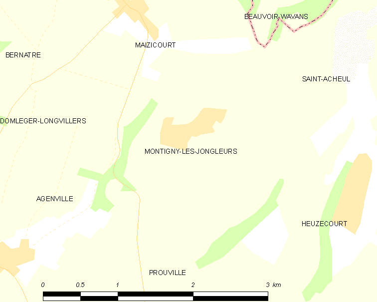 Map of French municipality Montigny-les-Jongleurs